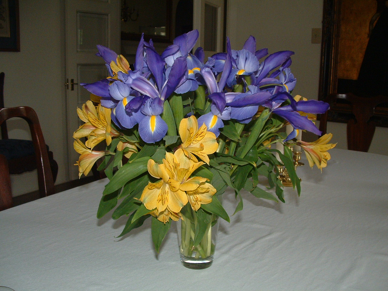 Yellow alstroemeria to set the table; blue iris as a gift from Gordon & Thao.